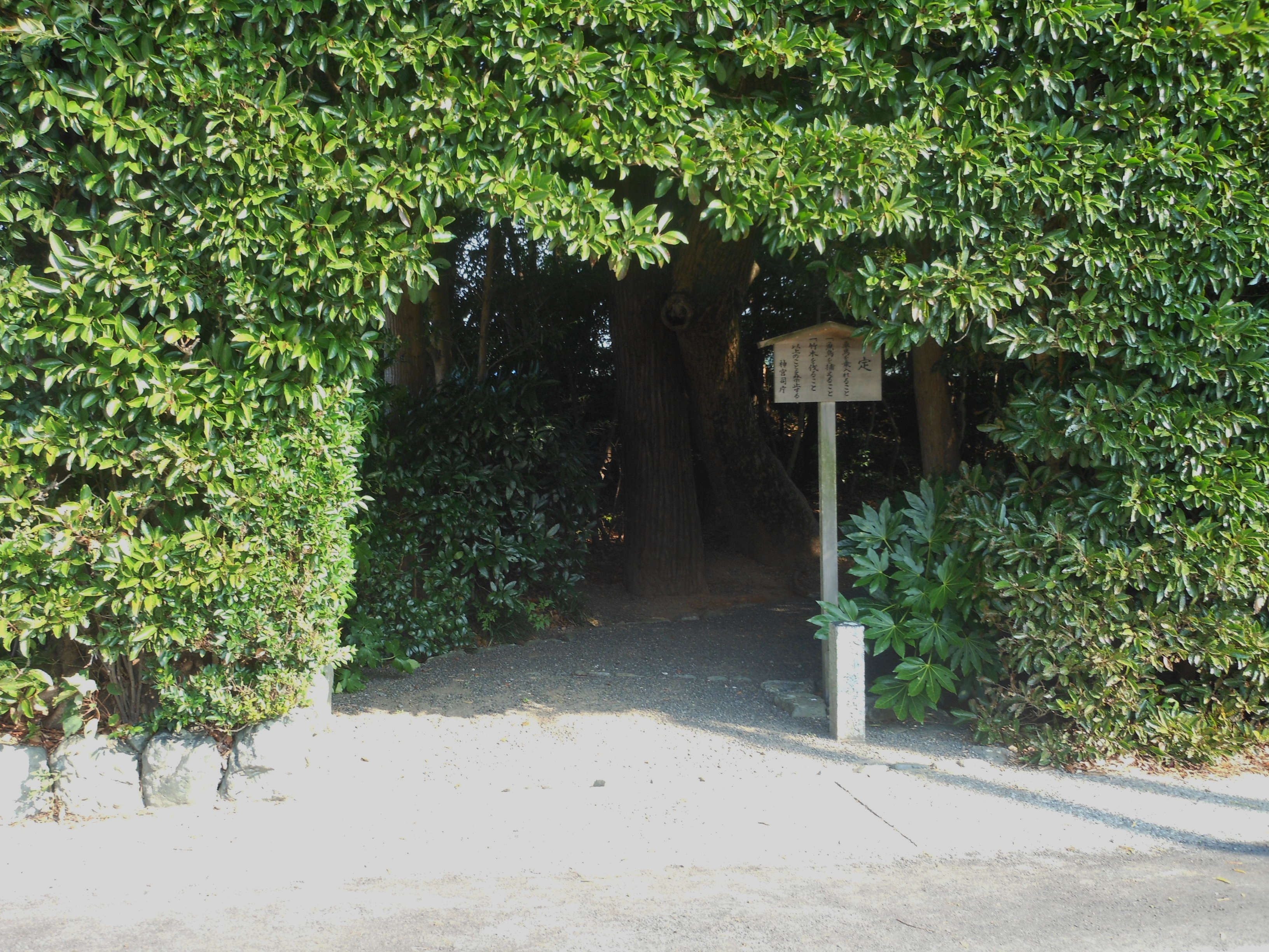 This is the entrance of "Forest of Chaya" in Ise, Mie, Japan. This forest has four shrines.